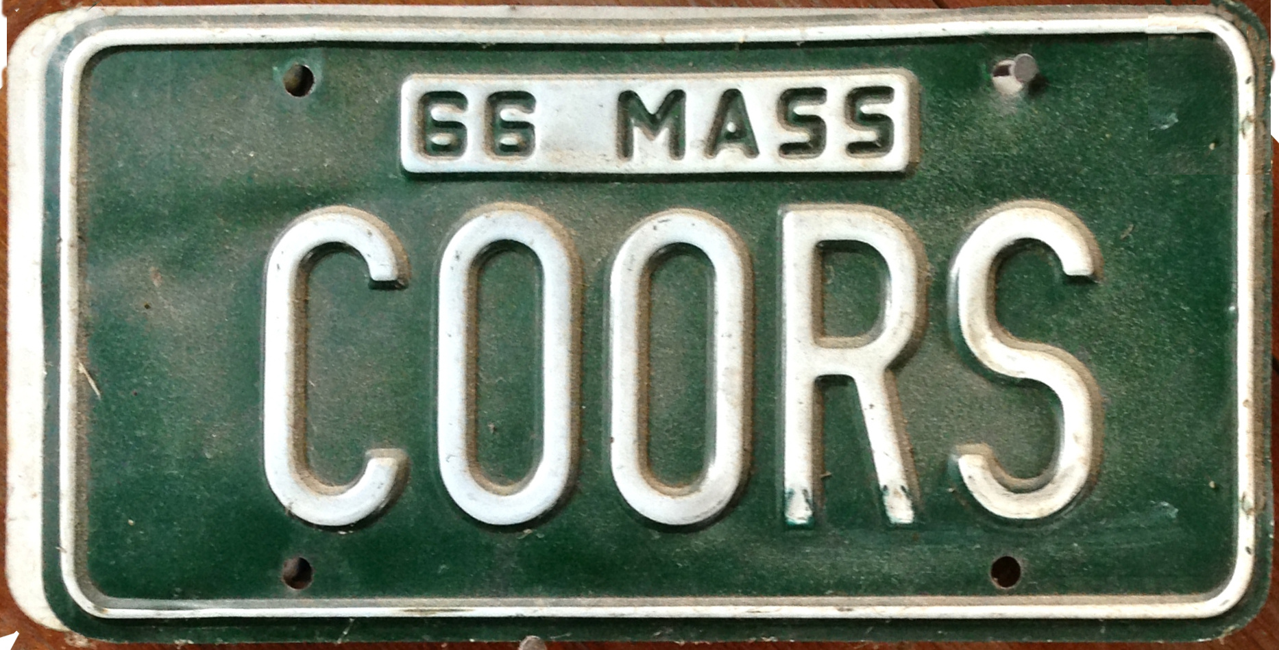 Massachusetts 1966 vanity plate naming alcoholic beverages no longer permitted